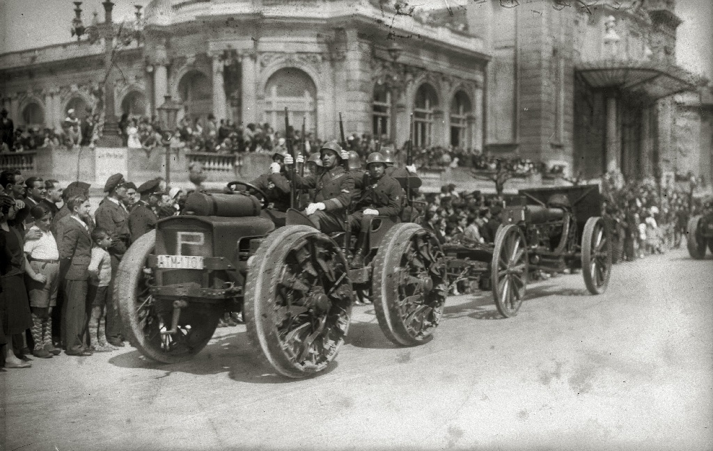 Military parade in Donostia, Spain: Schneider 155 13 model 1917 from the 3rd Heavy Artillery Regiment of the Spanish Army